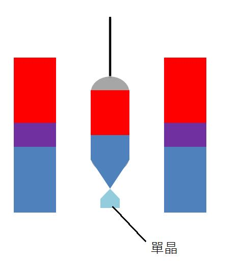 growing single crystal